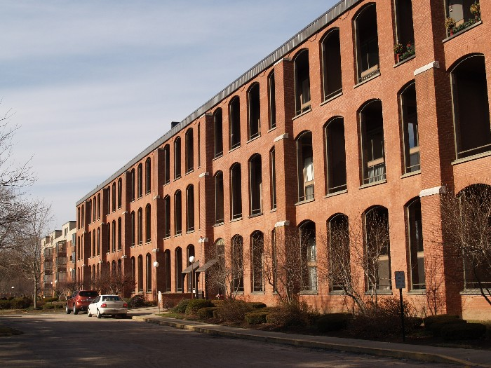 Riverbend Condominiums, Taunton, Massachusetts (former Old Colony Iron Works site / Nemasket Mills)